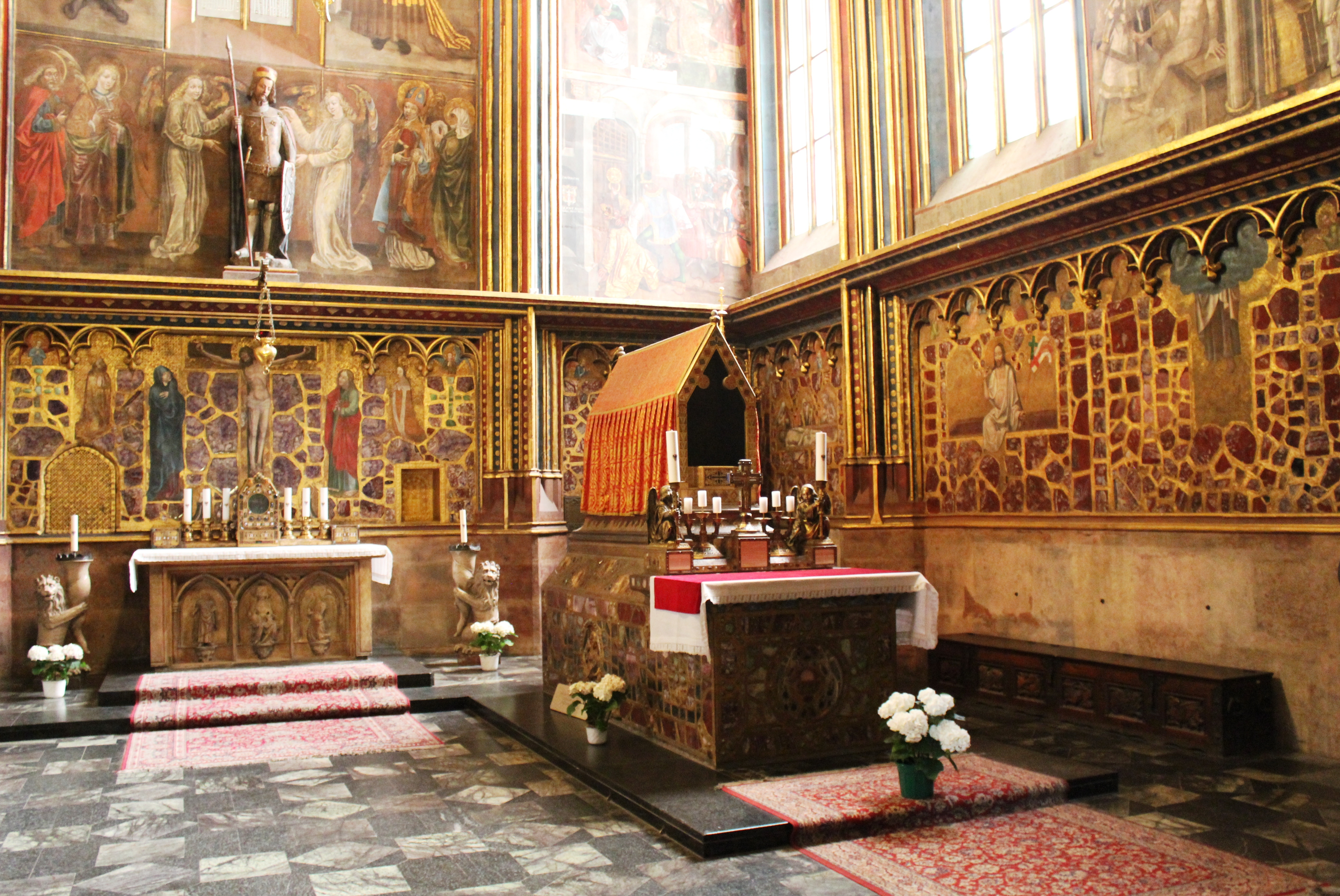 St. Vaclav Chapel in St. Vitus Cathedral, Prague.